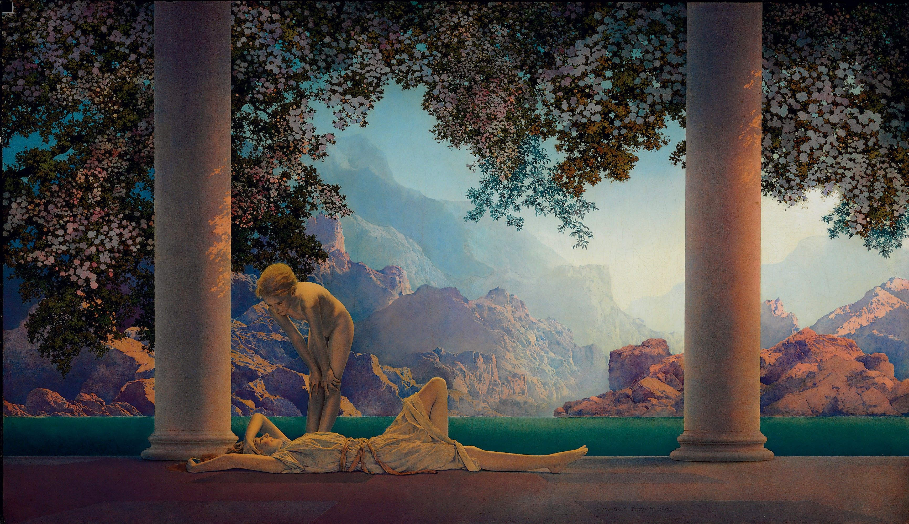 Daybreak, 1922 by Maxfield Parrish (1870–1966)